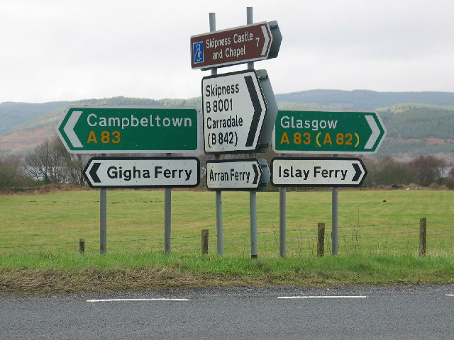 Road signs by the A83 Argyll.